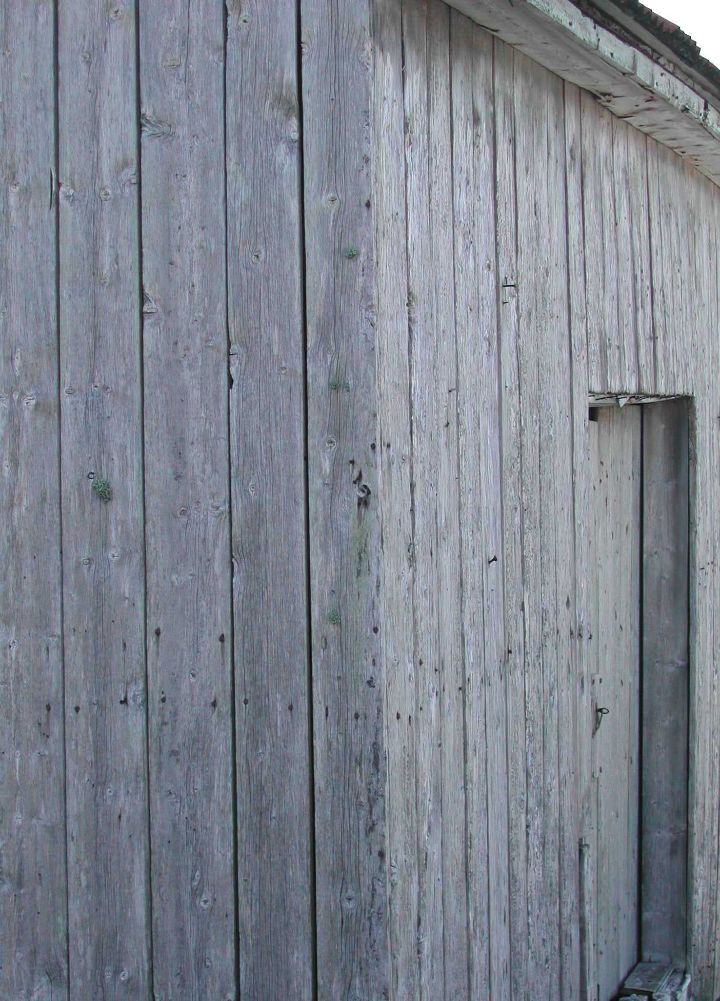 Simple wall